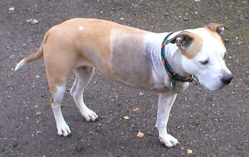 Three-legged dog Sheila 32nd day past amputation.